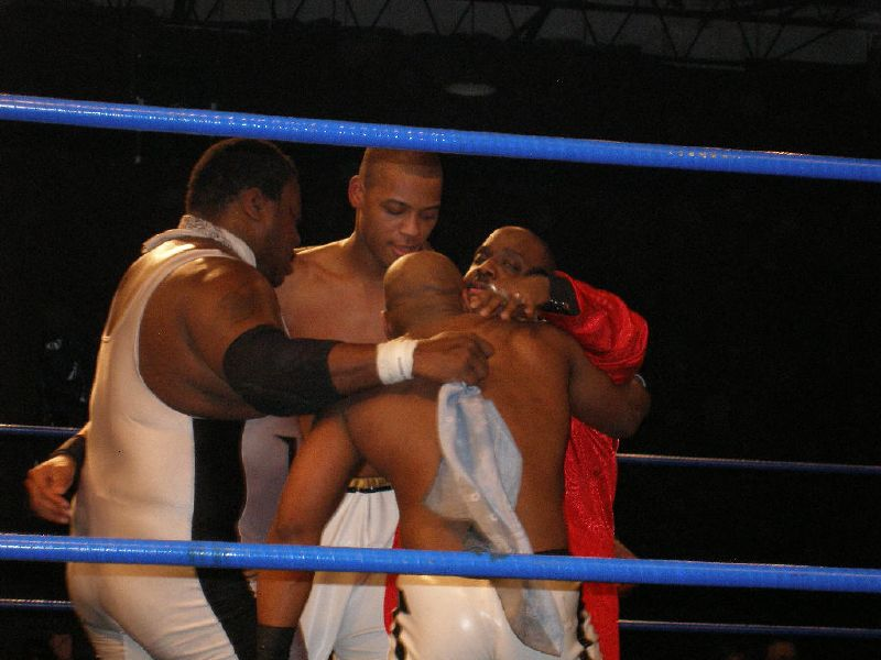 Professional wrestling alliance Da Soul Touchaz at a Chikara event.